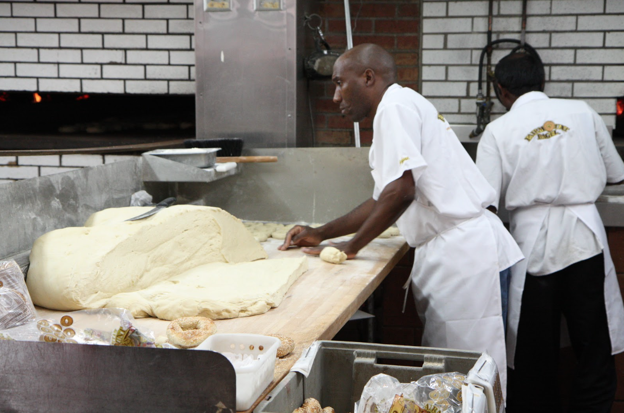 An employee working at the bakery producing bagels